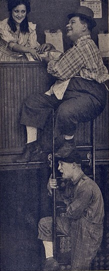 Josephine Stevens, Roscoe Arbuckle, and Al St. John in the American film The Butcher Boy (1917).